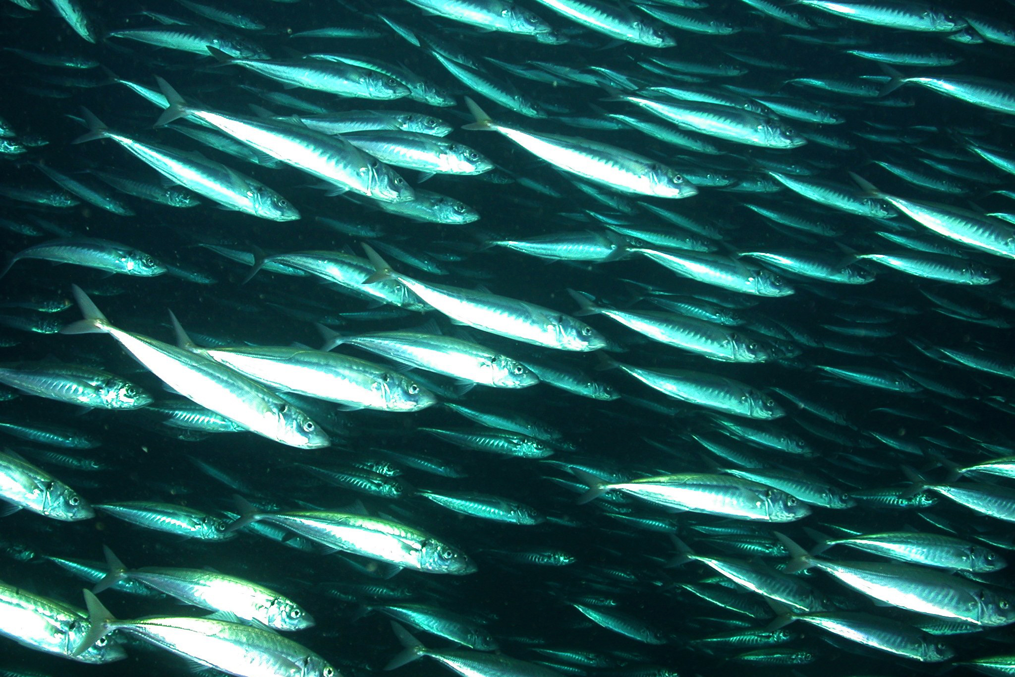 Jack mackerel